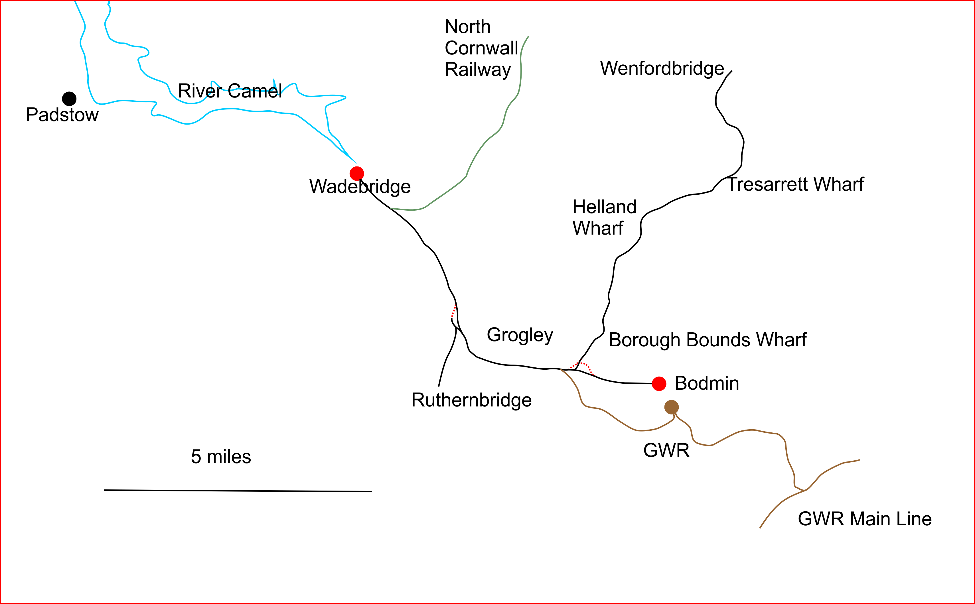 Map of Bodmin & WAdebridge Railway system in 1895